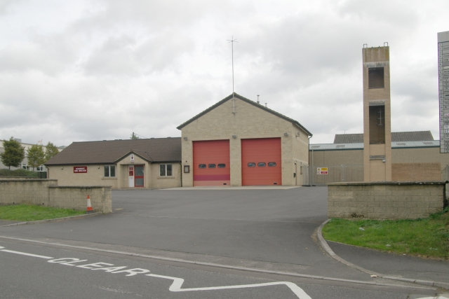 Wincanton Fire Station, Southgate Road, Bennetts Field Trading Estate, Wincanton, Somerset.